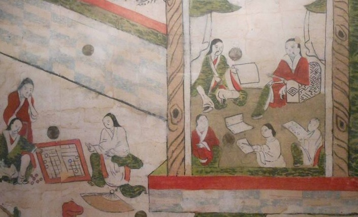 "Teaching" (Giảng học đồ 講學圖). 18th century, Hanoi museum of National History